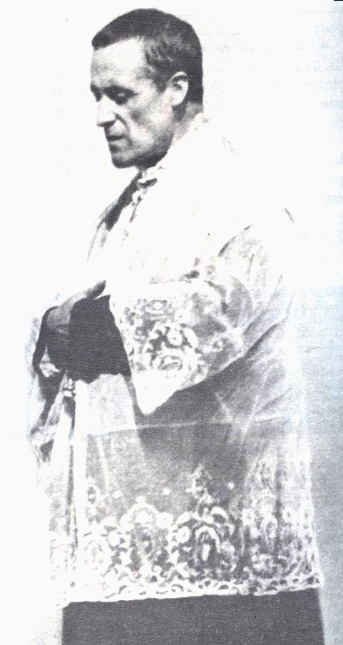 Saint José Maria Rubio y Peralta (1864-1929) Apostle of Madrid